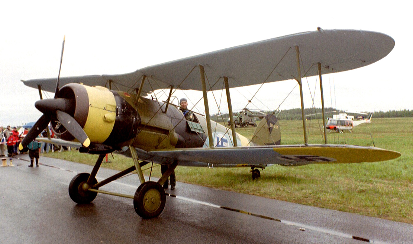 An ex-Finnish Air Force Gloster Gauntlet Mk II, GT-400, at Kymi Airfield Aviation Museum. This photo is from Jyväskylä airport. At some stage, this aircraft has been fitted with a new engine in a longer cowling, and a three bladed variable pitch propeller.